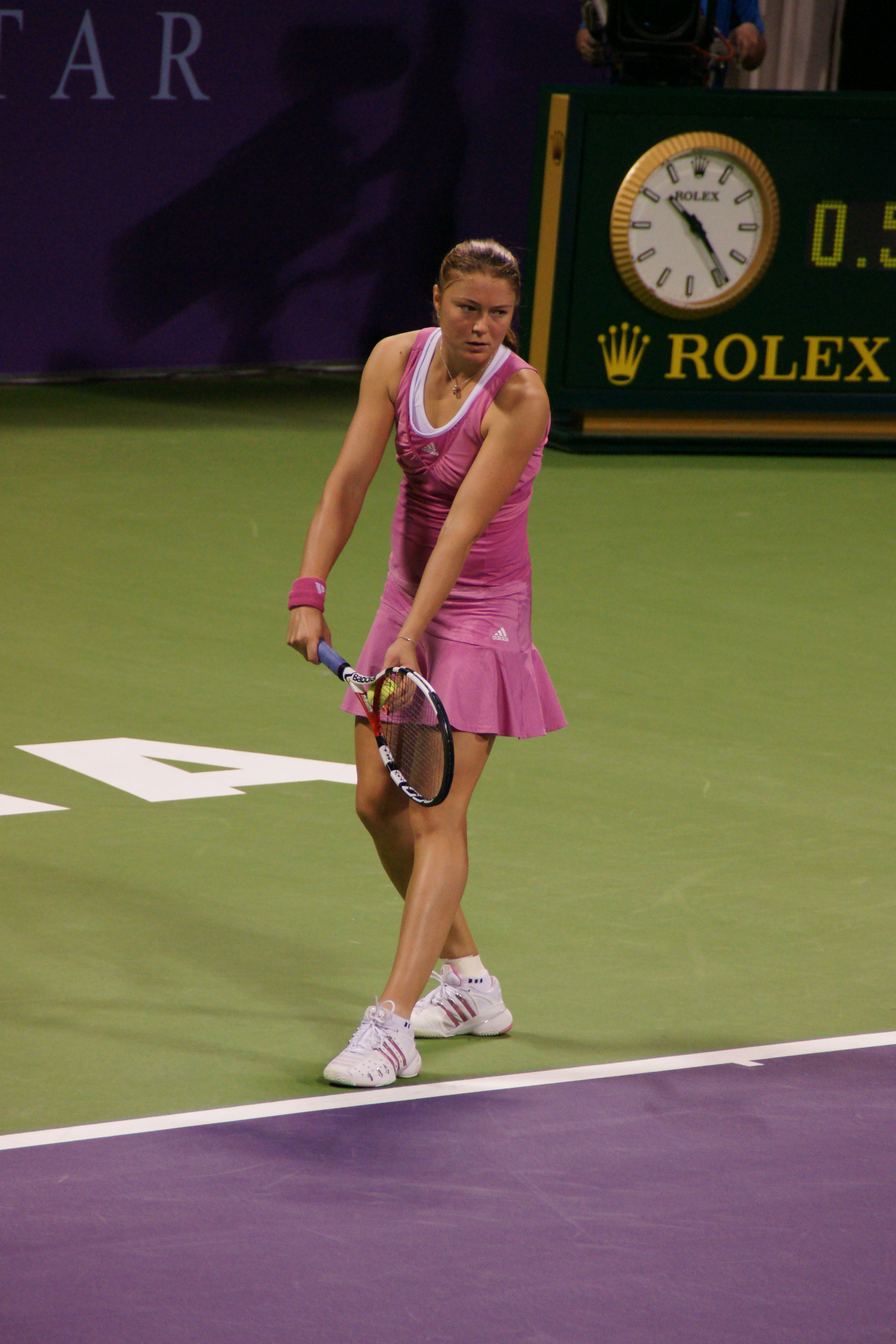 Dinara Safina at the 2008 WTA Tour Championships